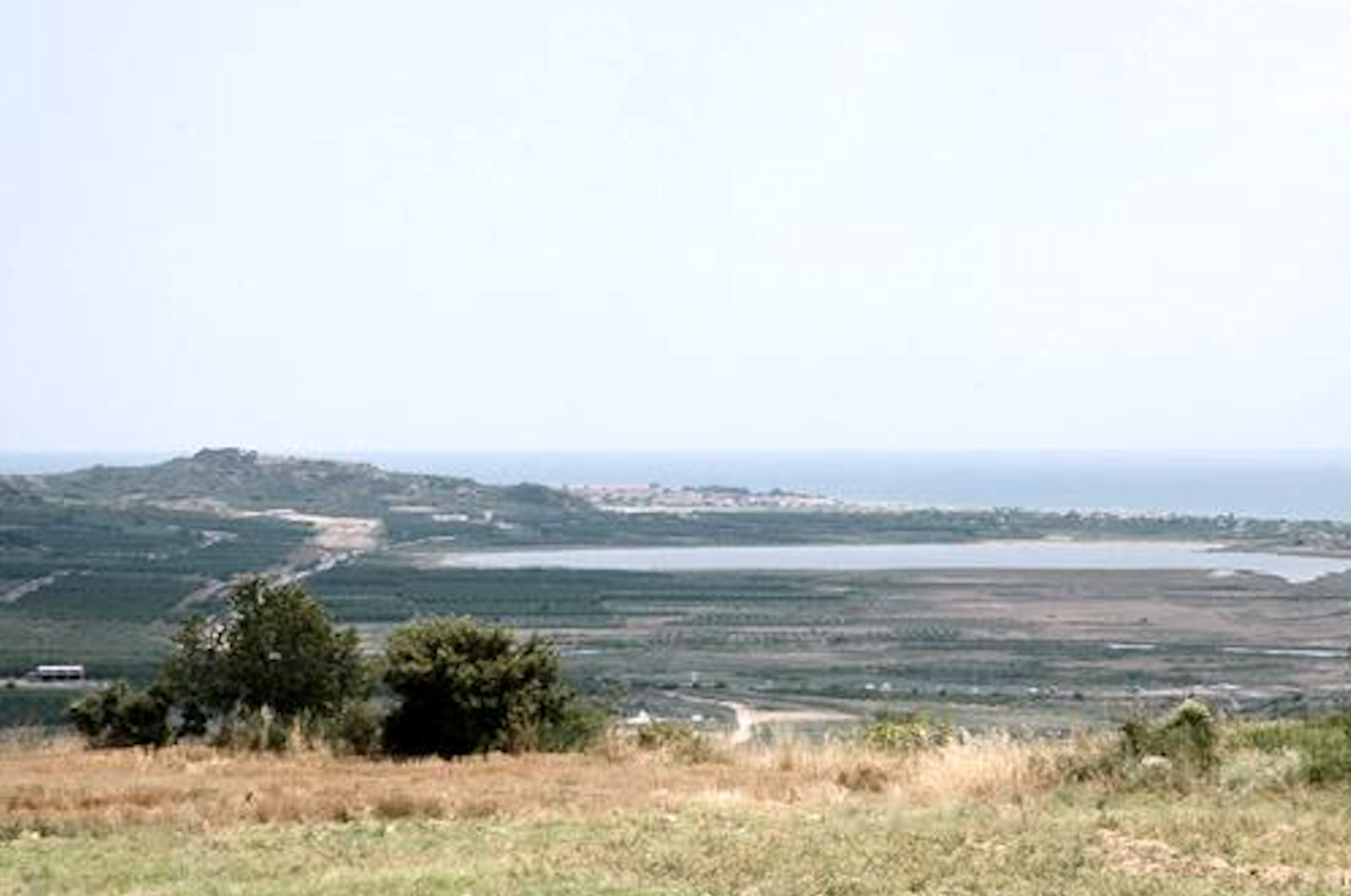 The Persian fort at Eïon and the mouth of the Strymon, seen from Ennea Hodoi (Amphipolis)